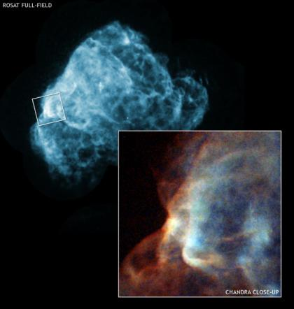 The Chandra three-color image (inset) of a region of the supernova remnant Puppis A (wide-angle view from ROSAT in blue) reveals a cloud being torn apart by a shock wave produced in a supernova explosion. This is the first X-ray identification of such a process in an advanced phase. In the inset, the blue vertical bar and the blue fuzzy ball or cap to the right show how the cloud has been spread out into an oval-shaped structure that is almost empty in the center. The Chandra data also provides information on the temperature in and around the cloud, with blue representing higher temperature gas. The oval structure strongly resembles those seen on much smaller size scales in experimental simulations of the interaction of supernova shock waves with dense interstellar clouds (see sequence of laboratory images). In these experiments, a strong shock wave sweeps over a vaporized copper ball that has a diameter roughly equal to a human hair. The cloud is compressed, and then expands in about 40 nanoseconds to form an oval bar and cap structure much like that seen in Puppis A.